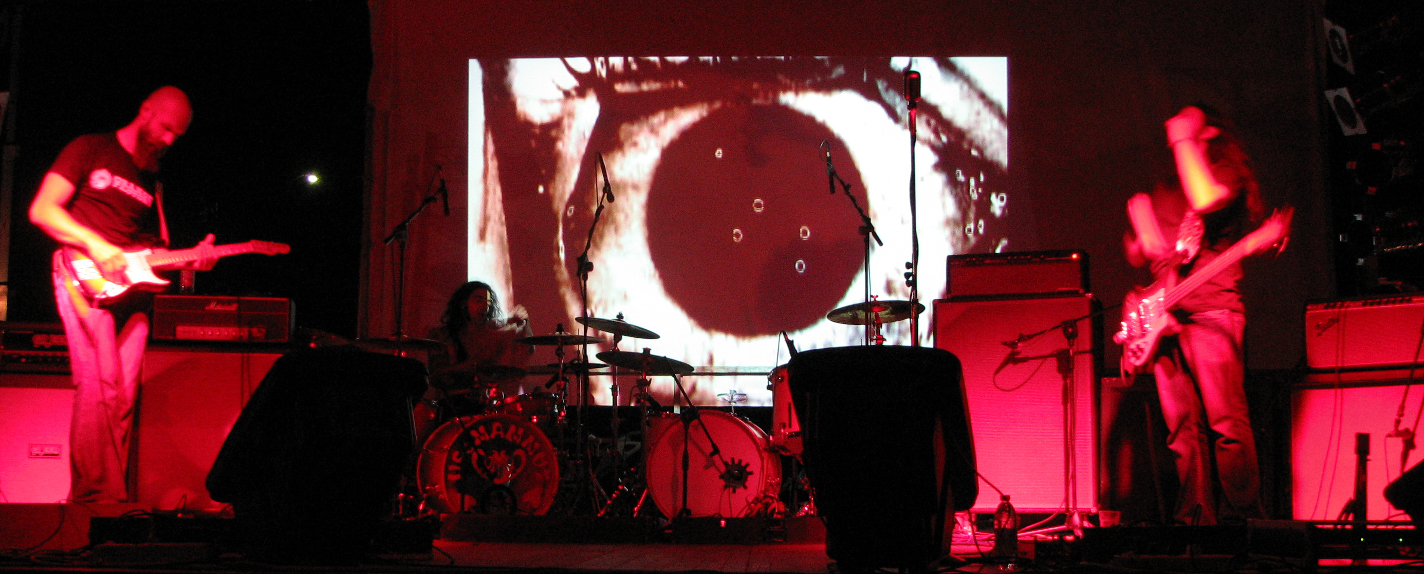 Ufomammut Live at the Shagoo Shagoo Festival 2008.